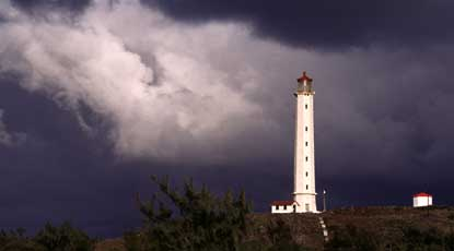 The Molokai Light, a historic lighthouse near Kalaupapa in Kalawao County, Hawaii, United States. The lighthouse is listed on the National Register of Historic Places.